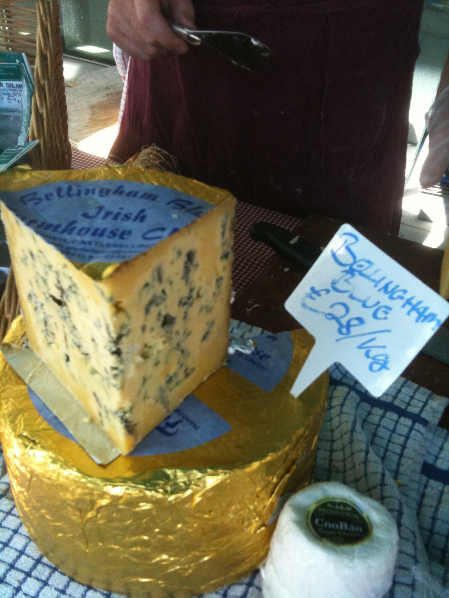 Photo of Bellingham Blue cheese taken at the market at the O2 in Dublin, Ireland.